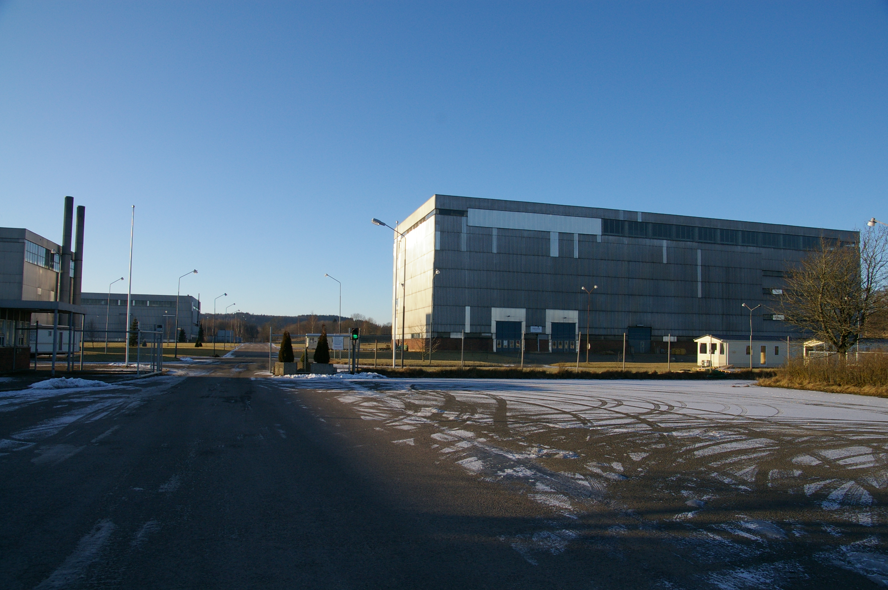 Closed down processing plant for Ranstad Uranium mine Sweden.